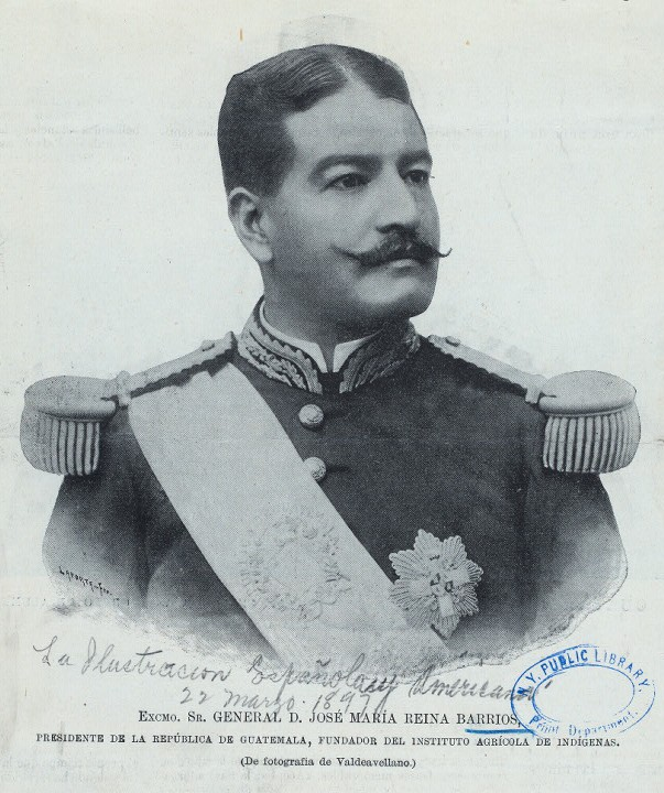 José María Reina Barrios (1853-1898), President of the Republic of Guatemala